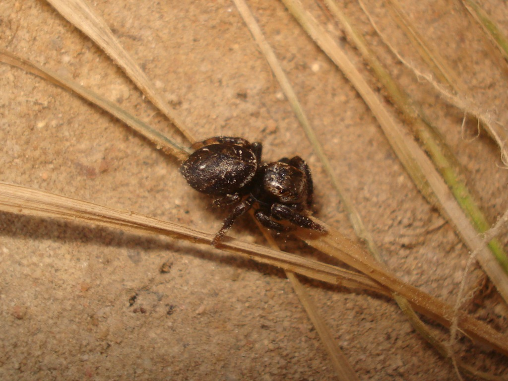 Heliophanus aeneus